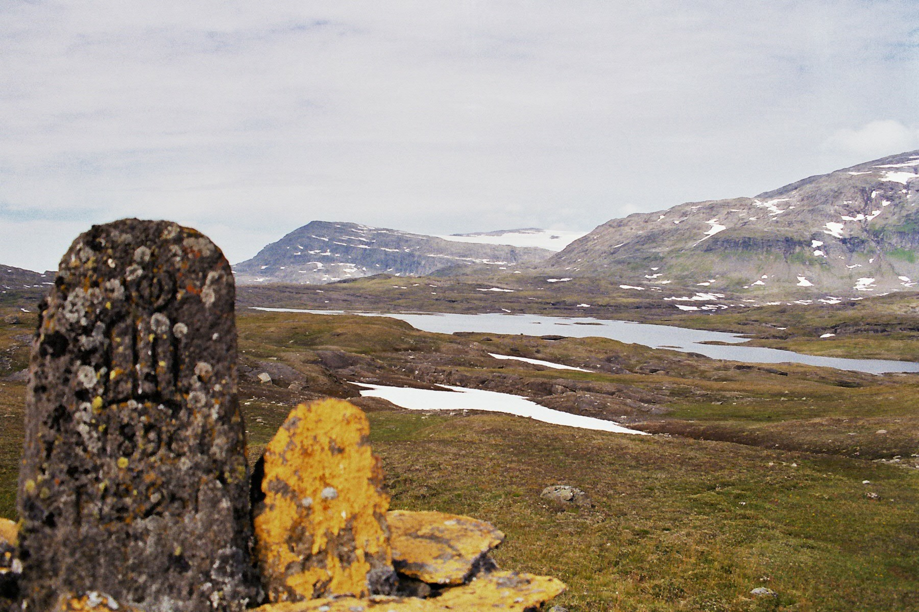 Border between Norway and Sweden - marking no. 251